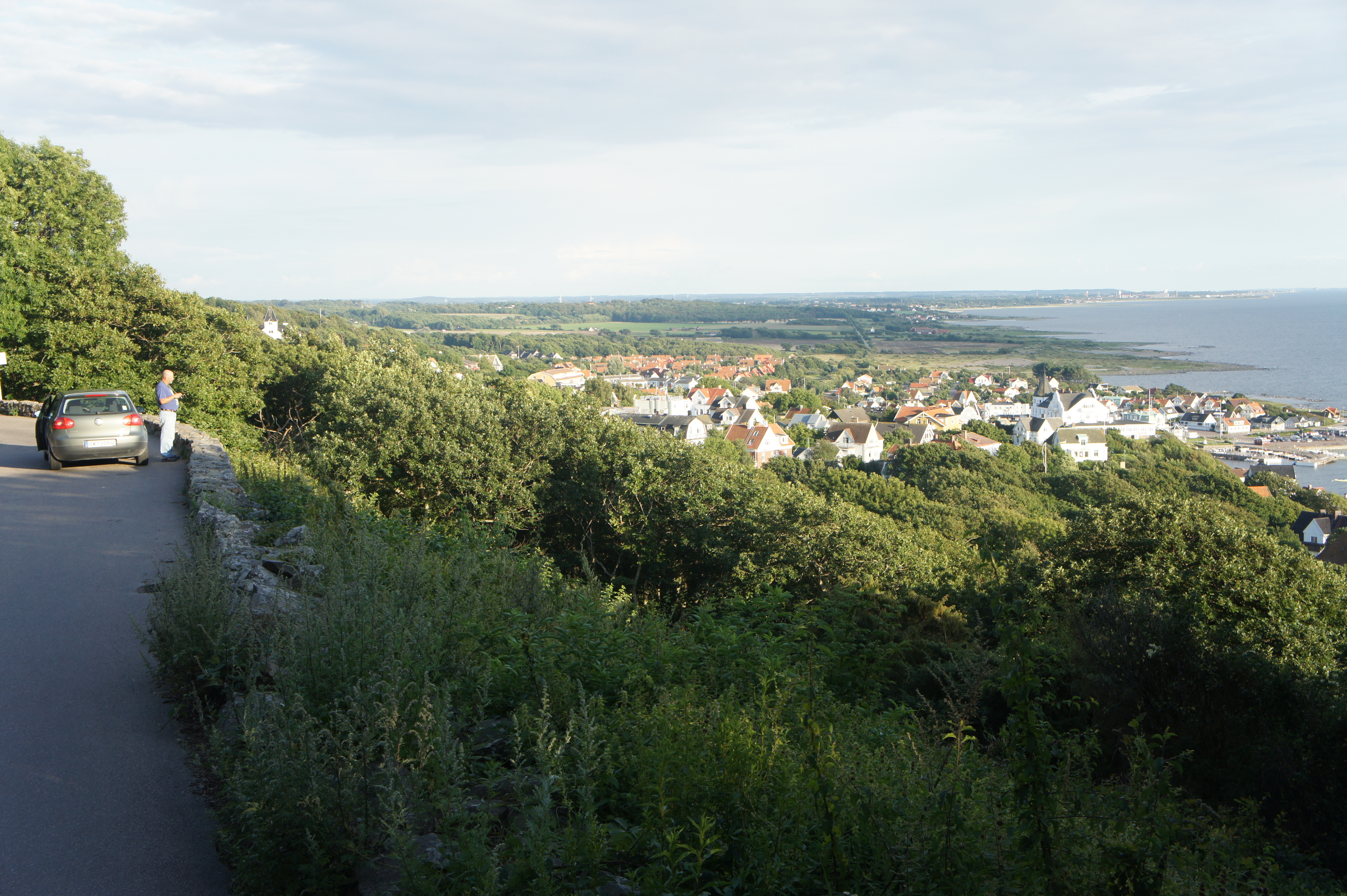 "The Italian Road", Mölle, Sweden